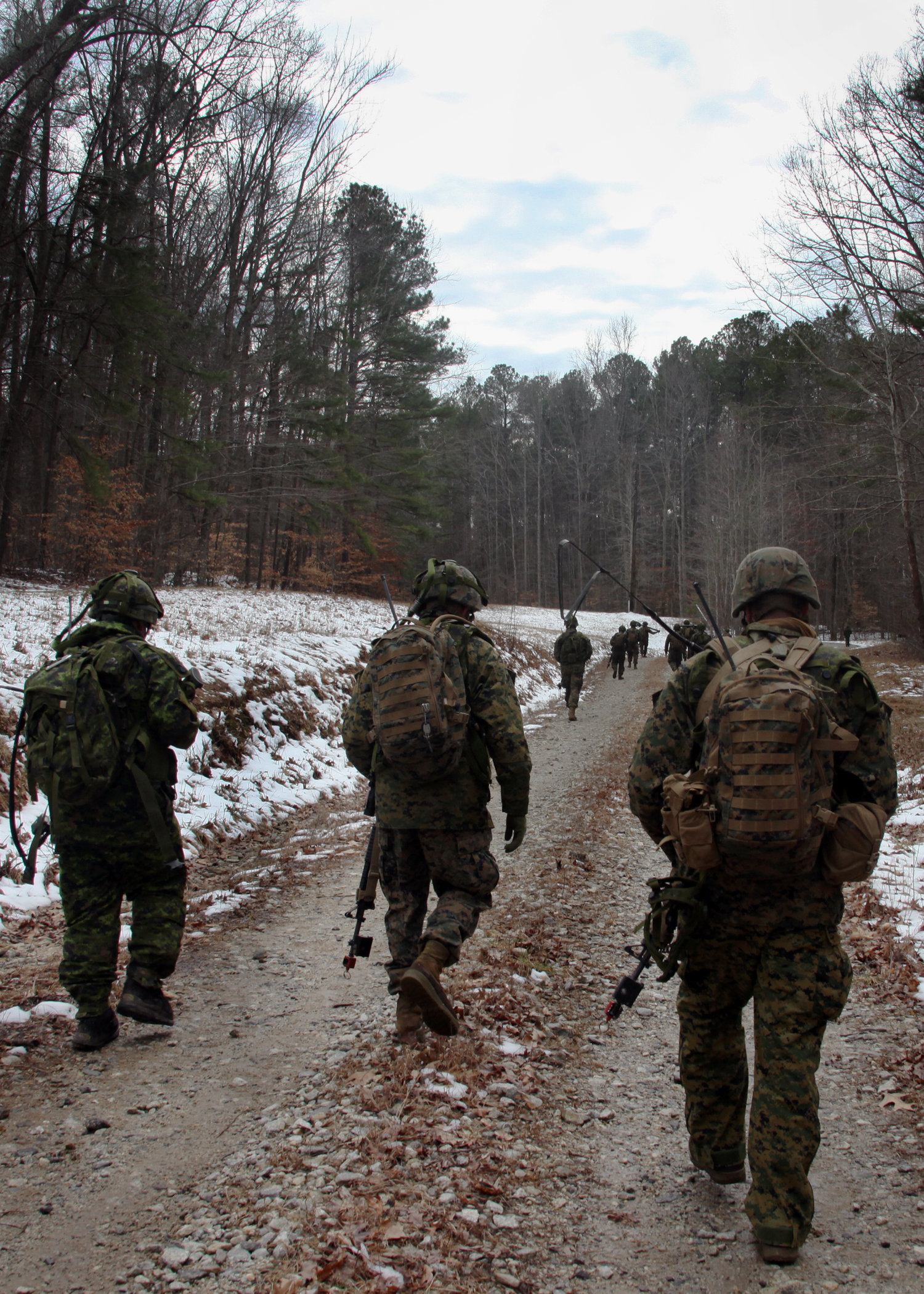 Canadian Army Sgt. Dave P. Standings, left, A Platoon, 2nd in command with Cape Breton Highlanders attached to the 36th Canadian Brigade, and team leaders, Cpl. Eric E. Lanham, center, and Lance Cpl. Chad M. Angeli, with Battery B, 2nd Low Altitude Air Defense Battalion, patrol a road aboard Virginia Army National Guard Installation Fort Pickett, Va., Feb. 21. The two groups integrated to complete a scenario based humanitarian mission in support of exercise South Bound Trooper. "Working with the Canadians lets us see the bigger picture about tactics they use," said Cpl. Demingo Lara, a section leader with Battery B. "This event makes Bravo Battery a better team of Marines."